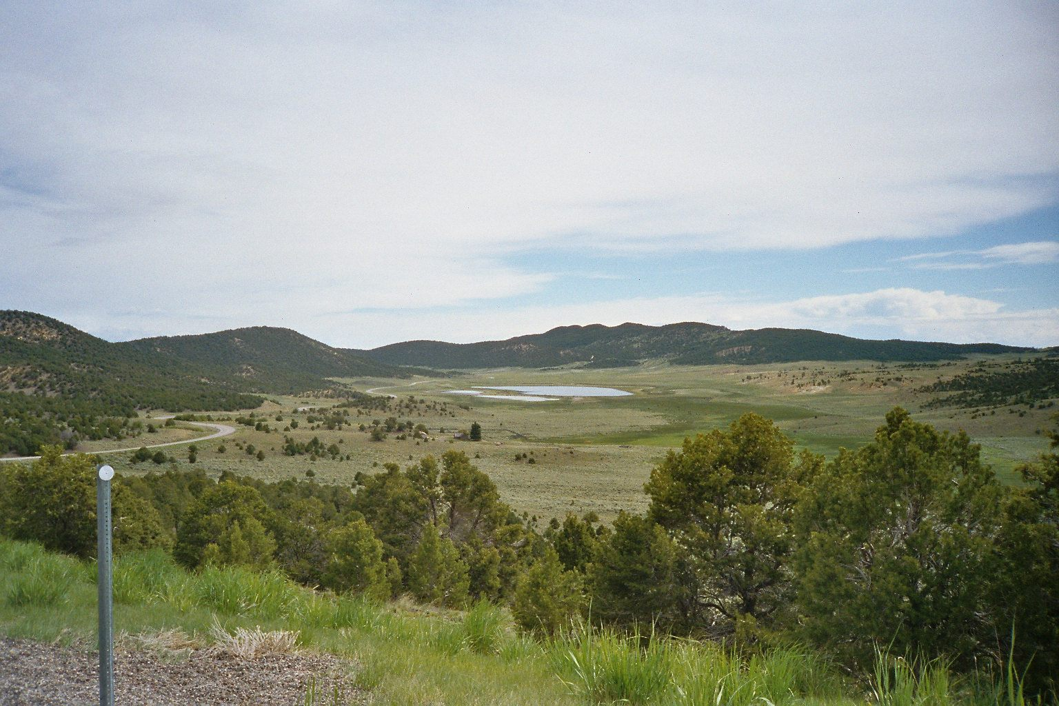 Sevier County (UT) SR 72s Fishlake Forrest, picture taken by myself in June 2005, author: R.Blauert Dk4hb